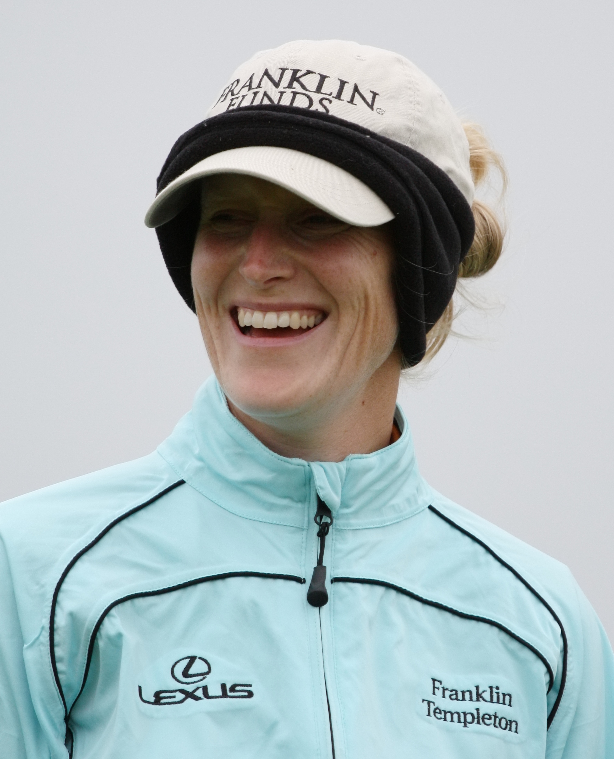 LYTHAM ST ANNES, UNITED KINGDOM - JULY 29: Janice Moodie of Scotland on the 4th green during third practice round before 2009 Ricoh Women's British Open held at Royal Lytham & St Annes on July 29, 2009 in Lytham St Annes, England. (Photo by Wojciech Migda)